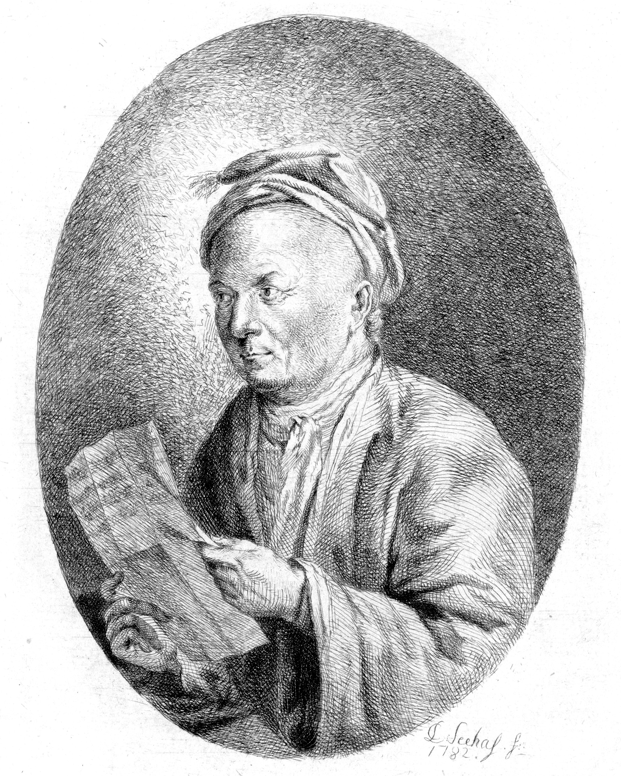 Depicted person: Gottfried August Homilius